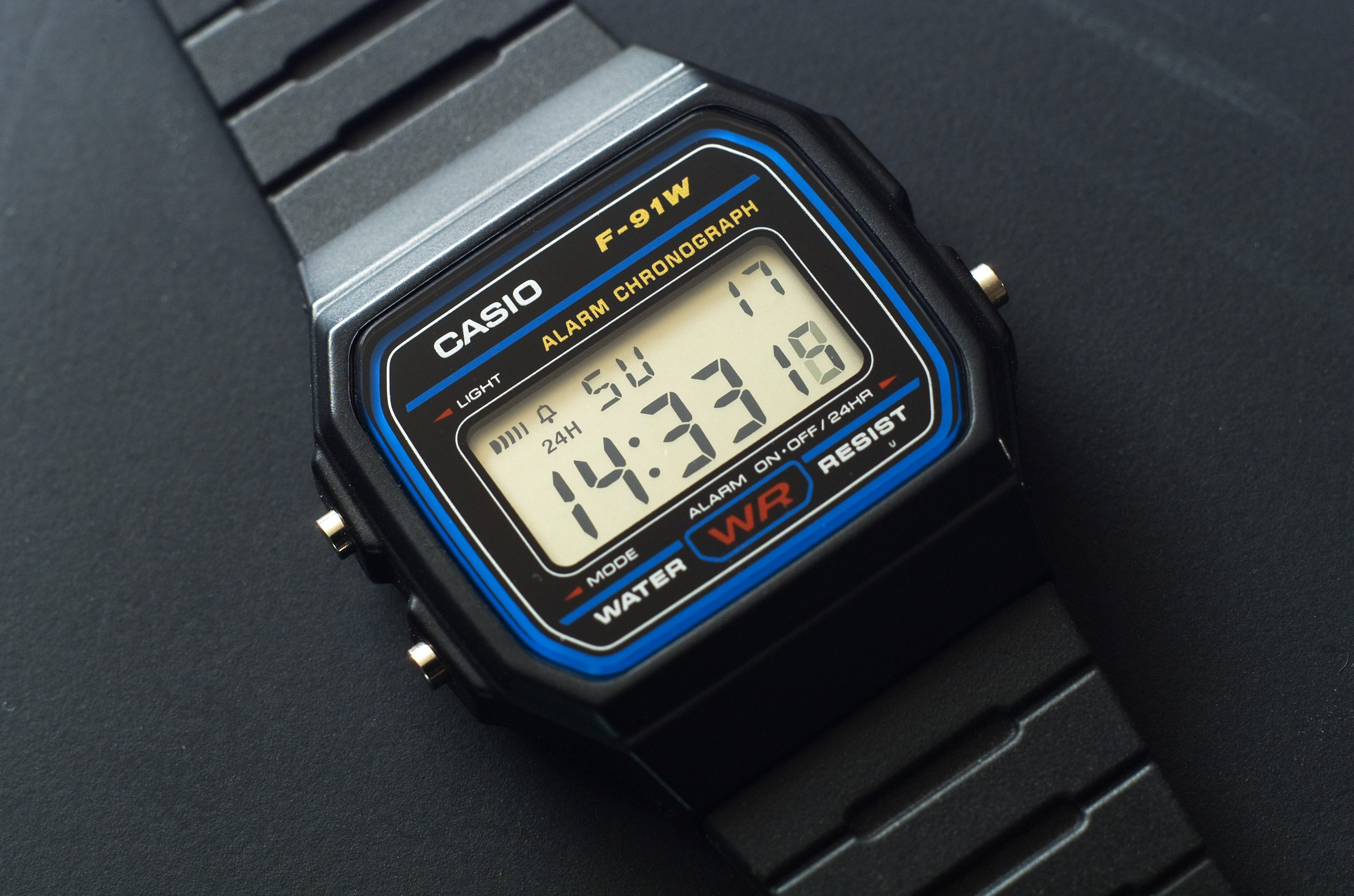 A Casio F-91W digital watch, circa 2013.